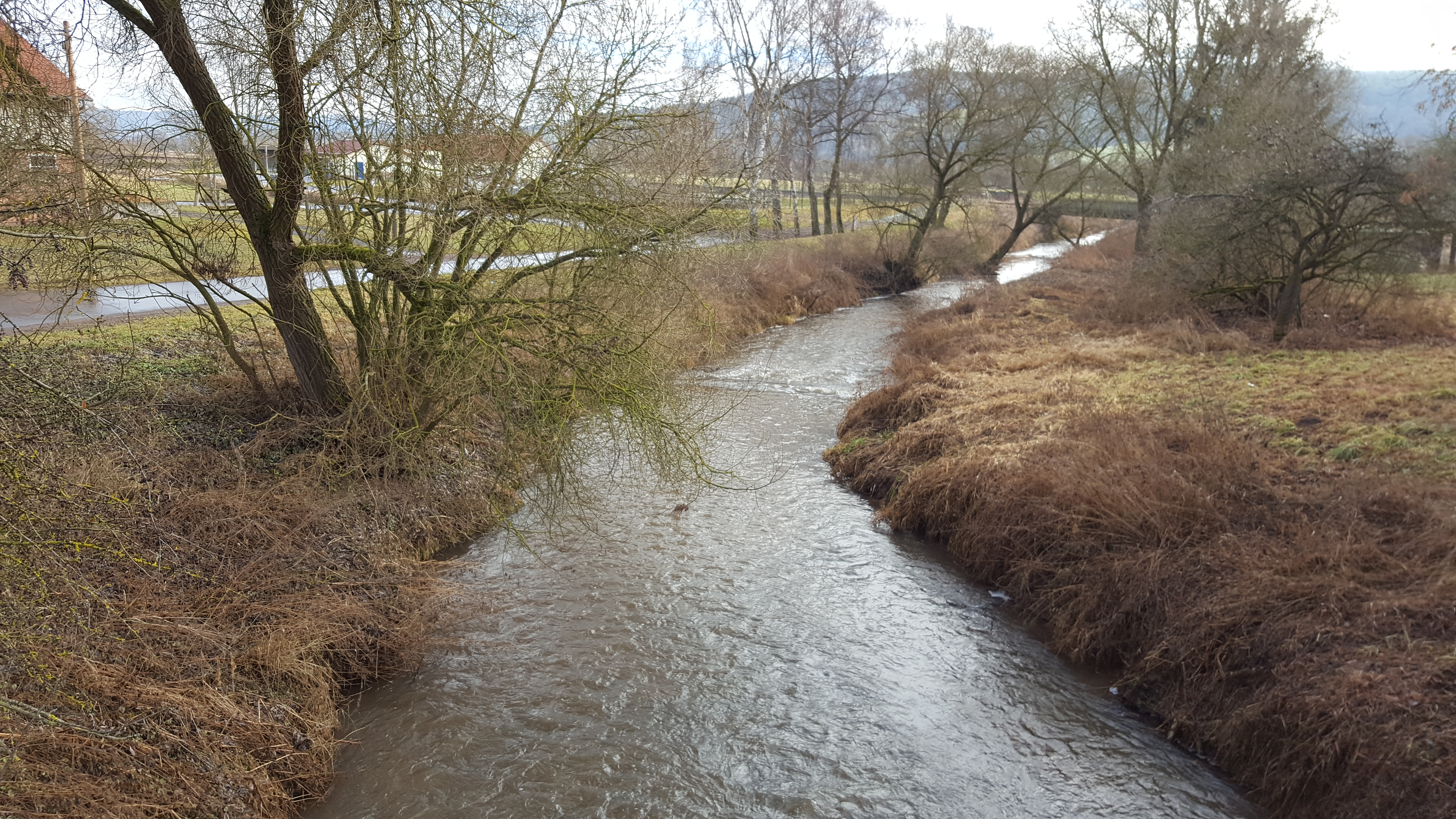 Aula near by Niederaula (tributary of the Fulda)